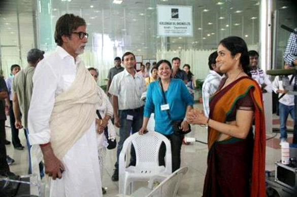 Actors Amitabh Bachchan and sridevi on the sets of the 2012 film English Vinglish.